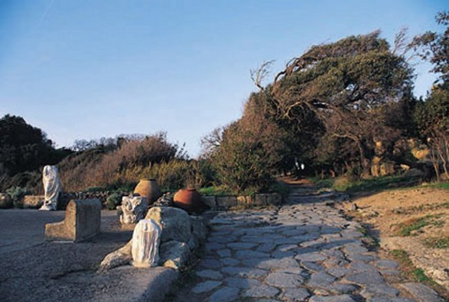 Personal photo